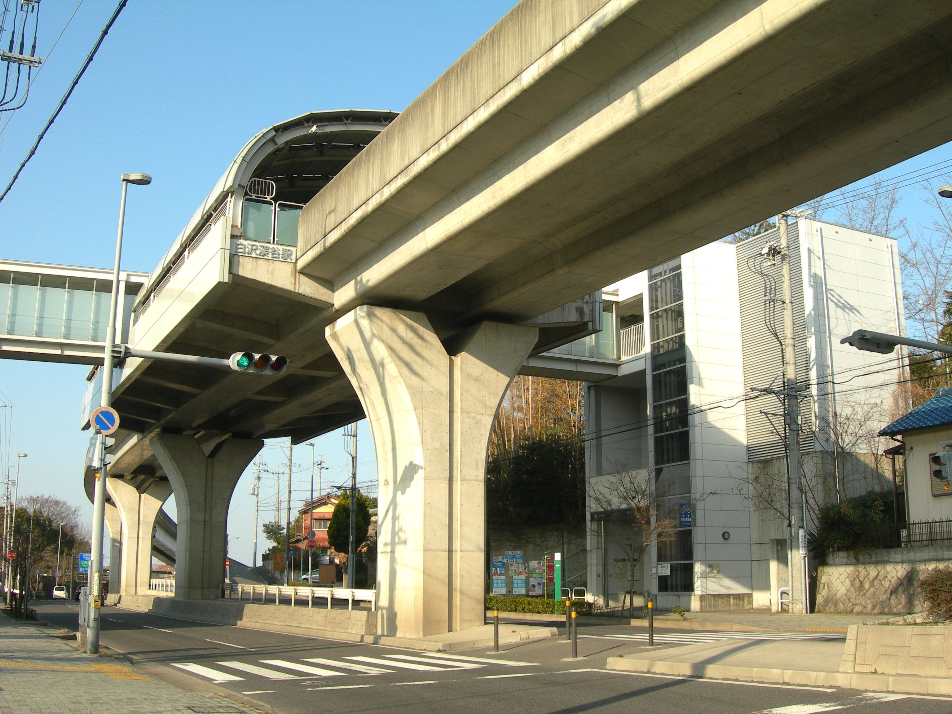 Nagoya Guideway Bus Shirasawa Keikoku Station